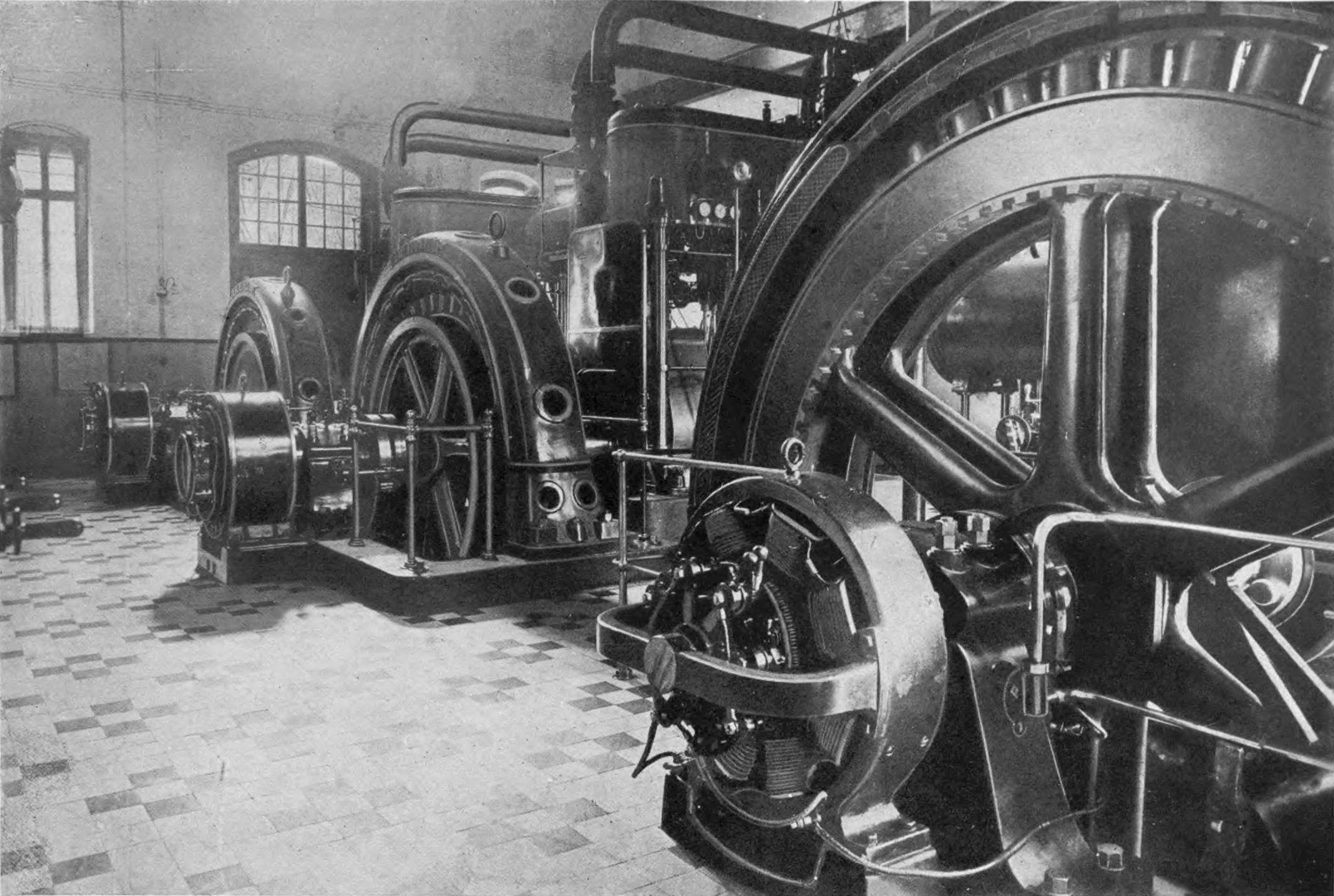 siemens electrical power station in tsingtau